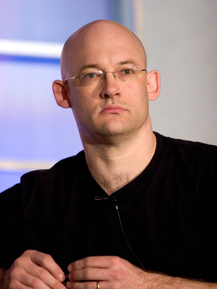 Clay Shirky on the Folksonomy panel. This photograph was taken during the 2005 O'Reilly Emerging Technology Conference in San Diego, California at the Westin Horton Plaza Hotel.